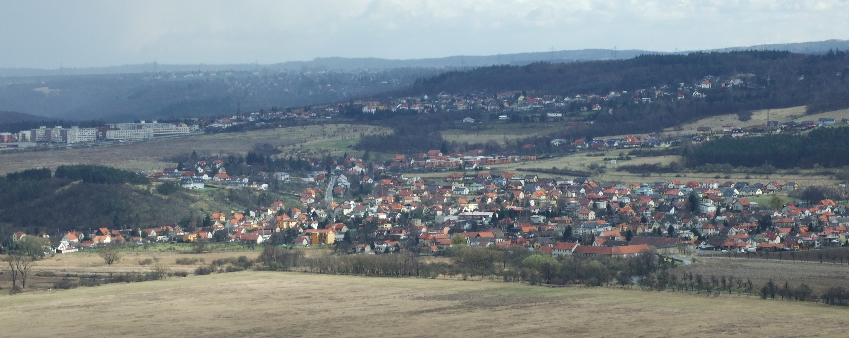 Aerial view of Lipence from hill near Černošice